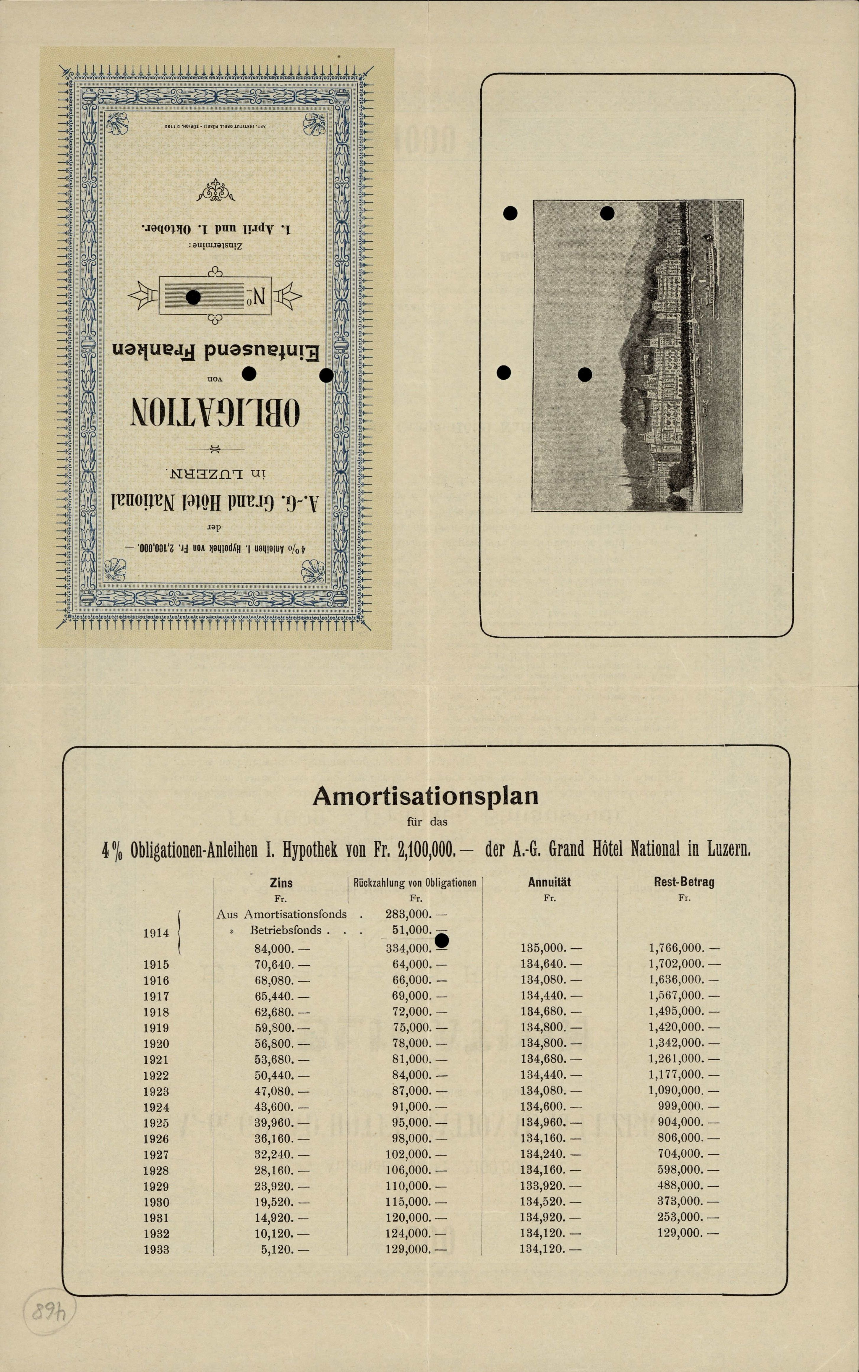 Reverse site of the bond from 1904 with redemption plan